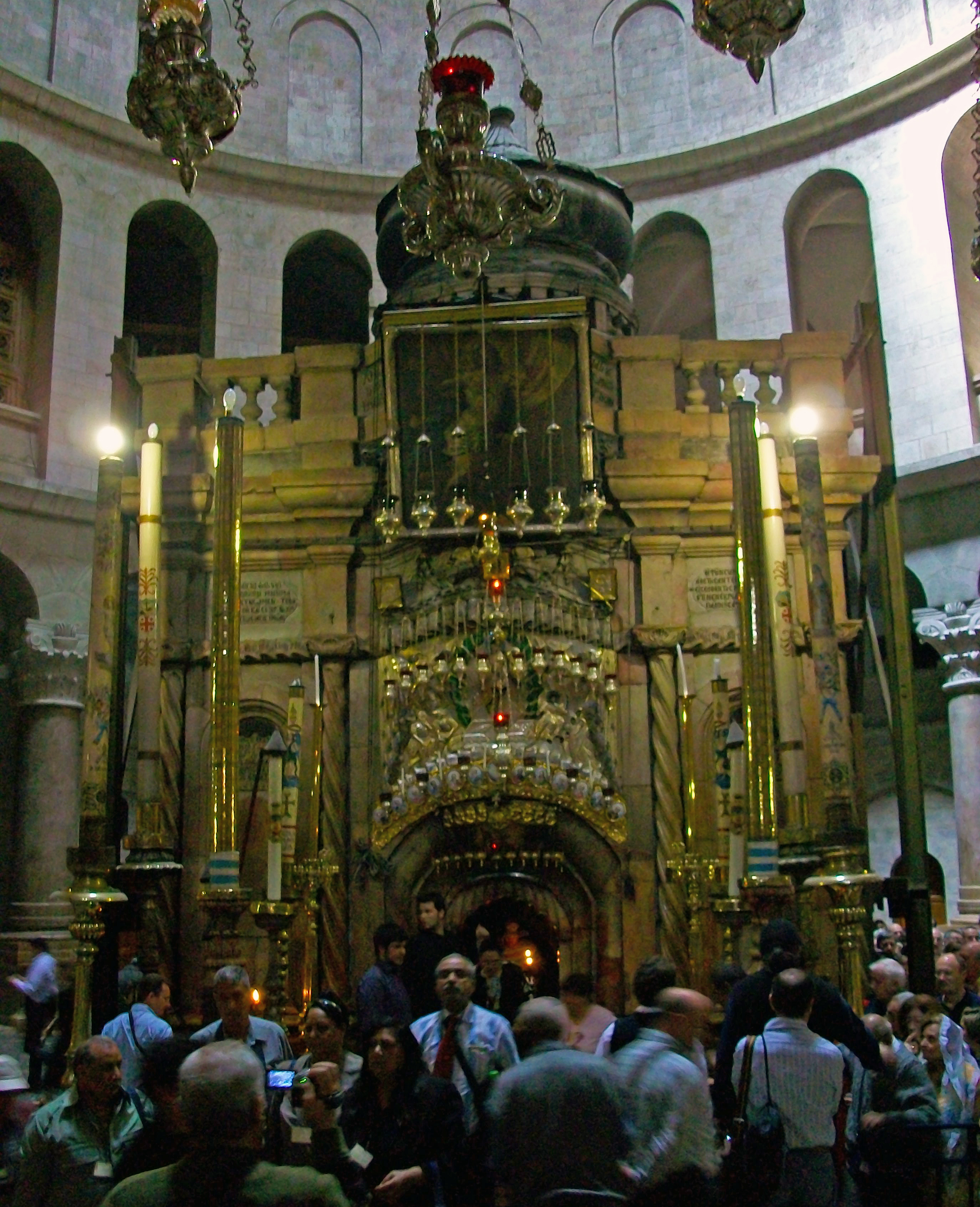 Aedicule at Church of the Holy Sepulchre, Jerusalem